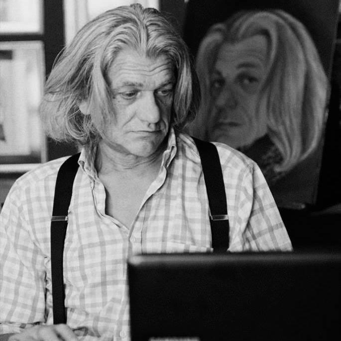 Innocente Foglio, il poeta delle cose